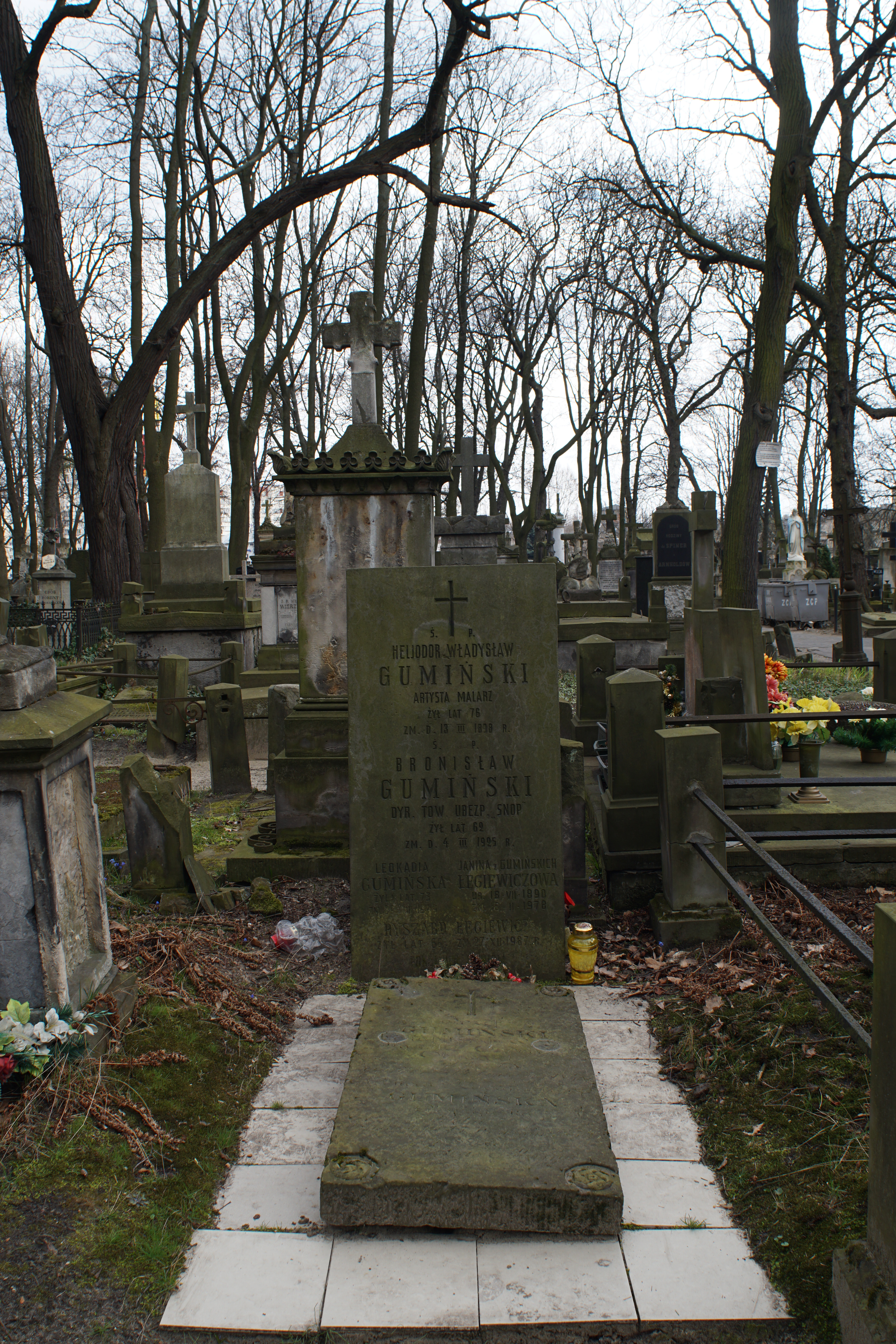 The grave of Władysław Gumiński at the Powązki Cemetery (section 2, row 6, grave 27)